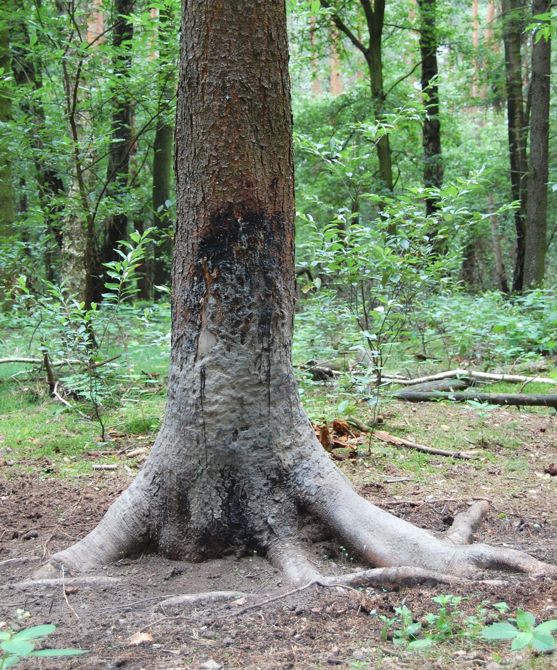 Sus scrofa, "Malbaum"